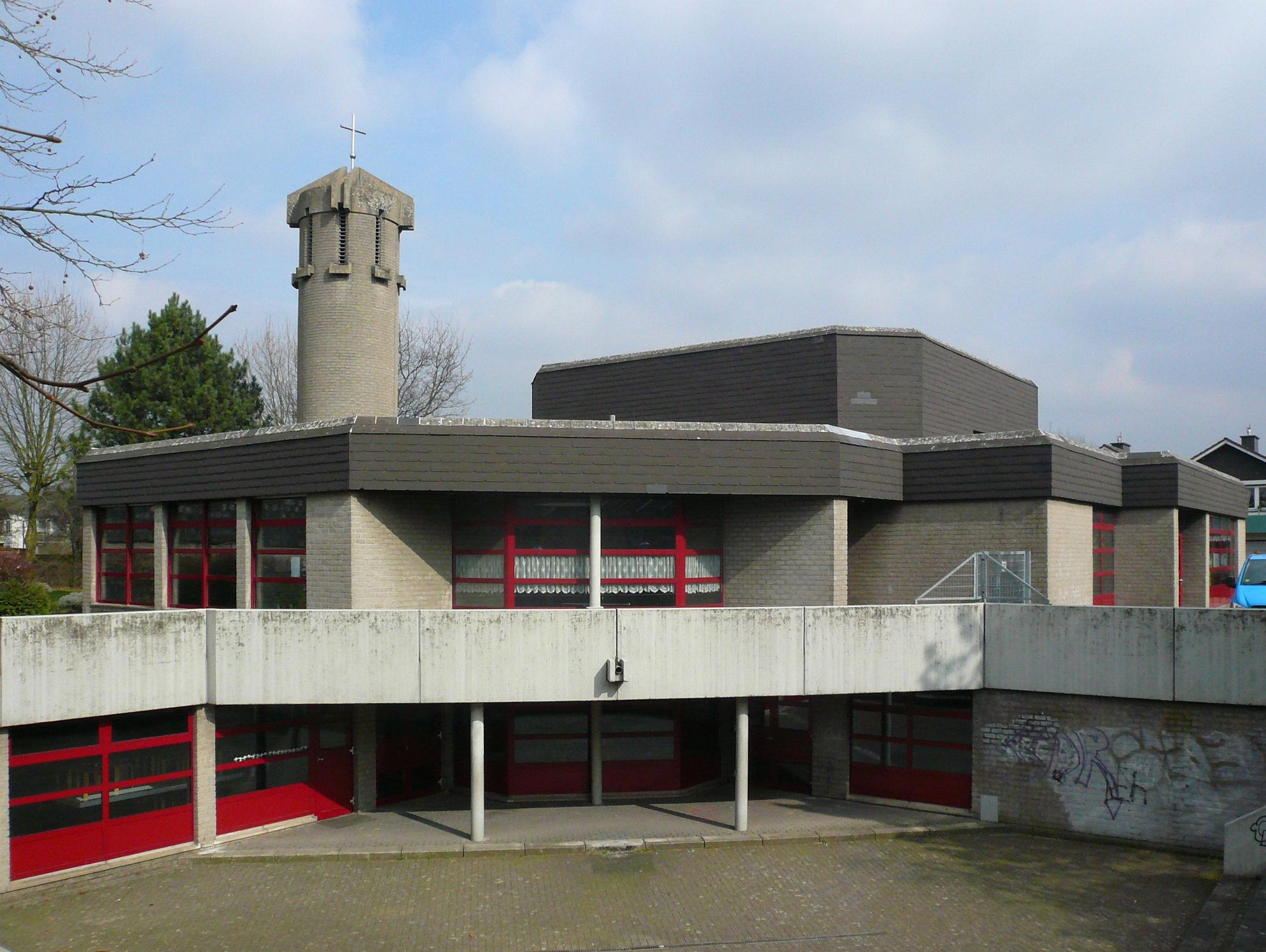 Mathias prostetant church in Düsseldorf, Germany